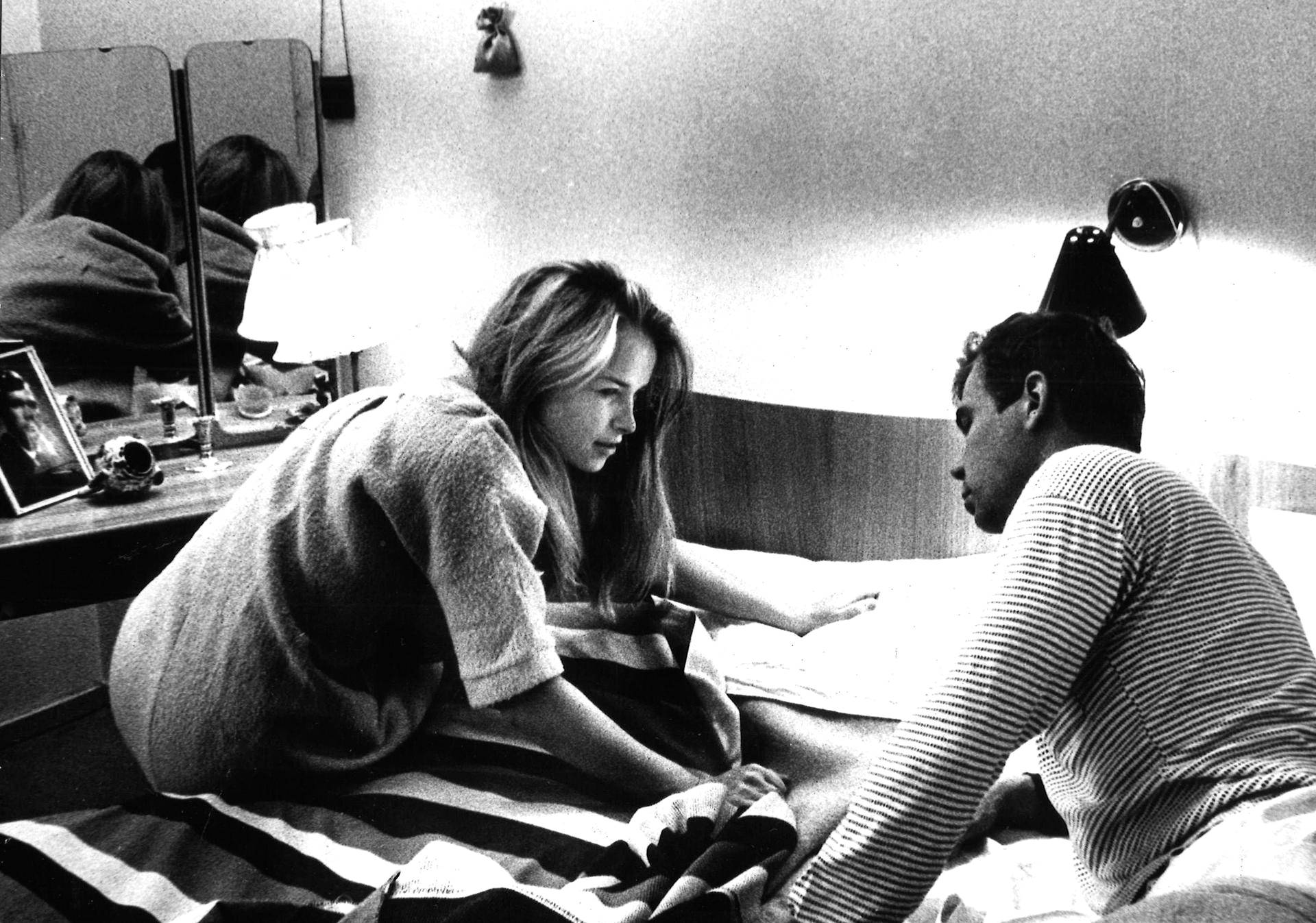 Publicity photograph from the film set of Vihreä leski by Jaakko Pakkasvirta with the main cast, Eija Pokkinen and Risto Aaltonen.